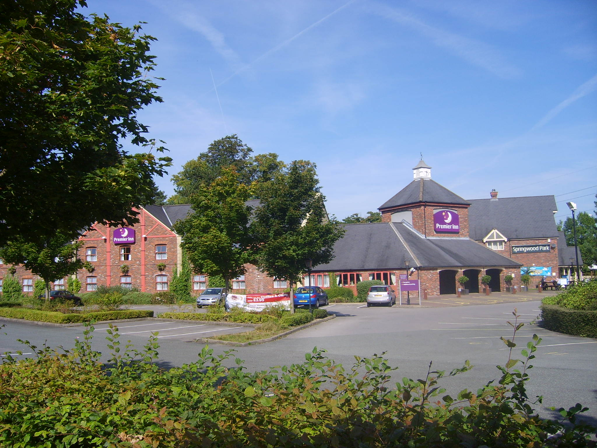 Premier Inn hotel in Tytherington business park outside Macclesfield, UK